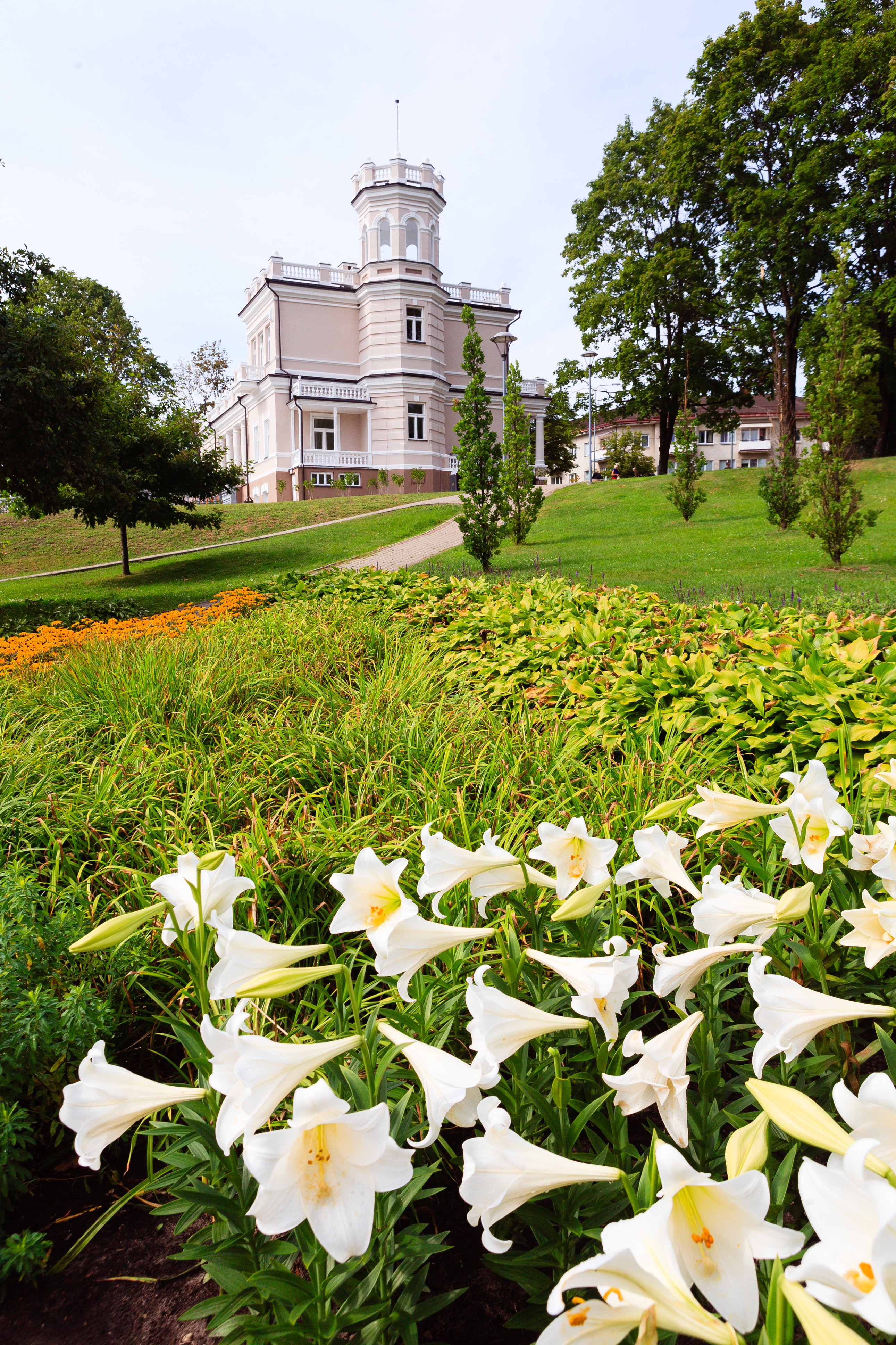 the center of Druskininkai